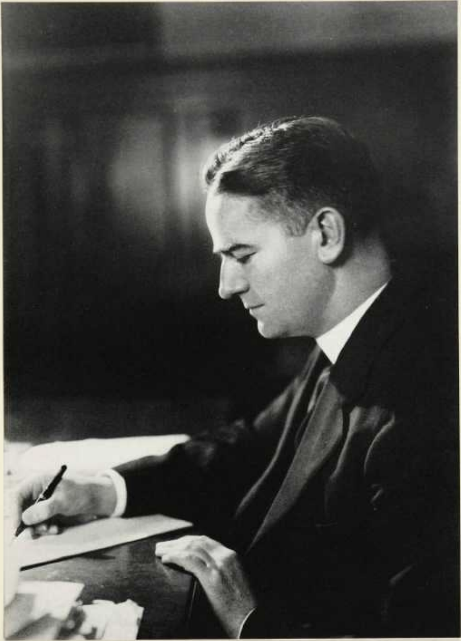 Portrait of Lawrence C. Gorman, president of Georgetown University, in 1943